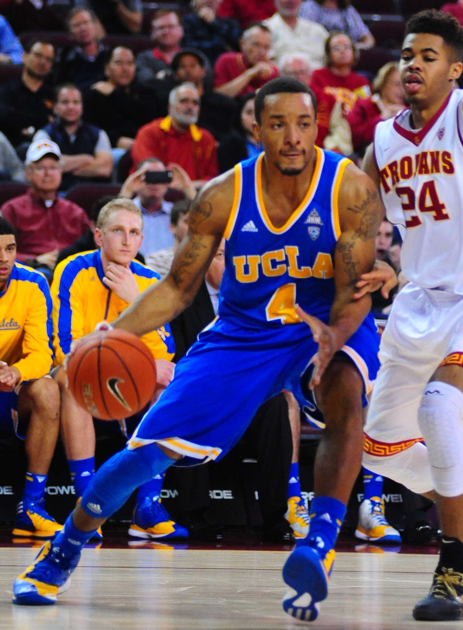 Norman Powell (No. 4) of UCLA Bruins guarded by Malik Marquetti (24) of USC Trojans.